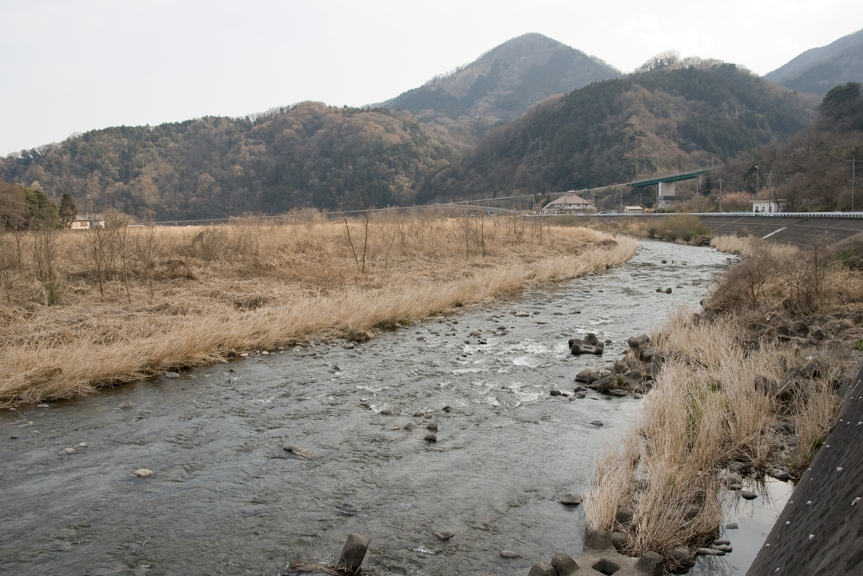 Nakatsu River, Aikawa town, kanagawa pref, Japan.